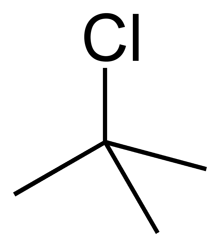 Skeletal formula of tert-butyl chloride, (CH3)3CCl